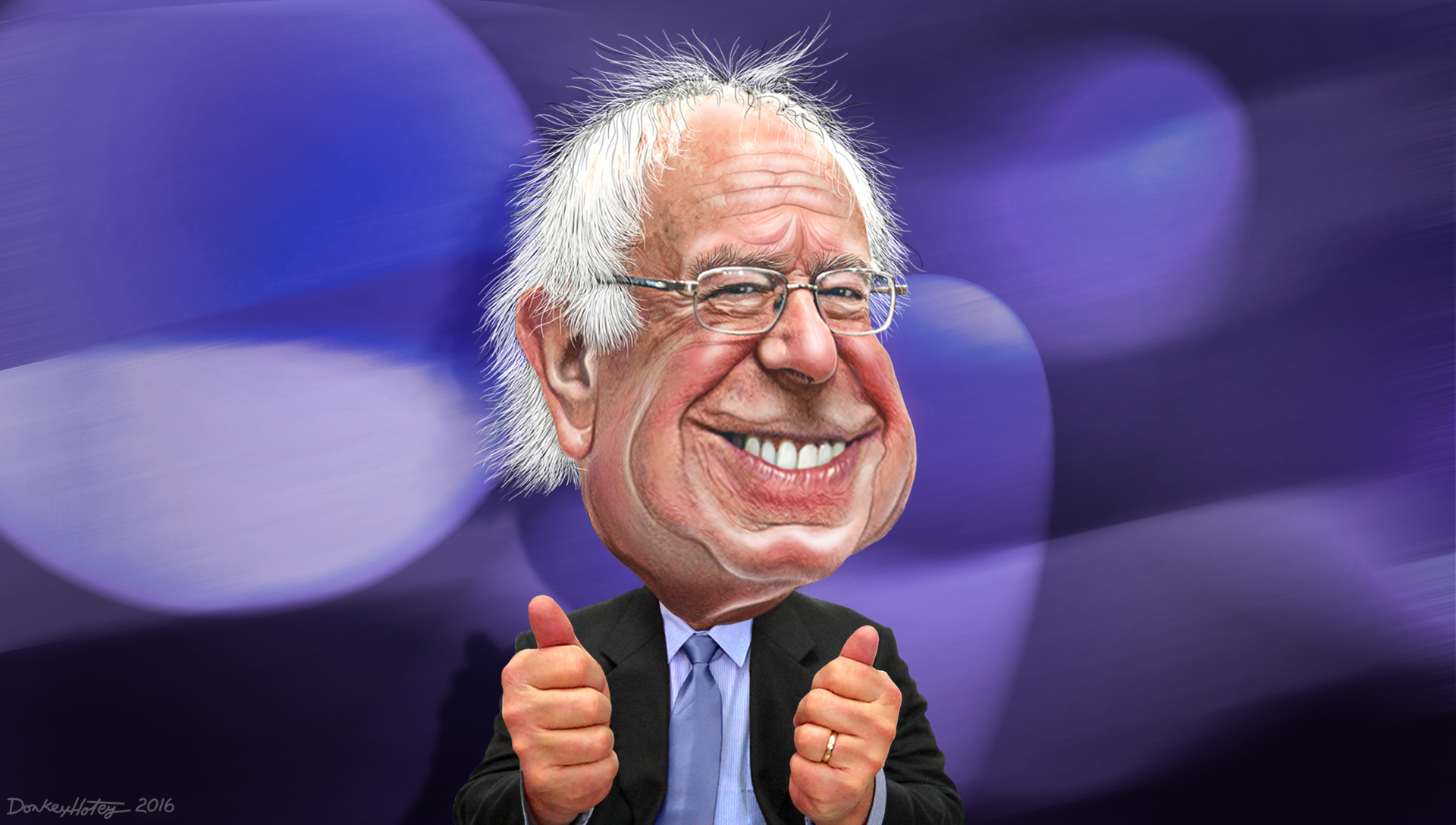 This caricature of Bernie Sanders was adapted from a Creative Commons licensed photo by Nick Solari available via Wikimedia.